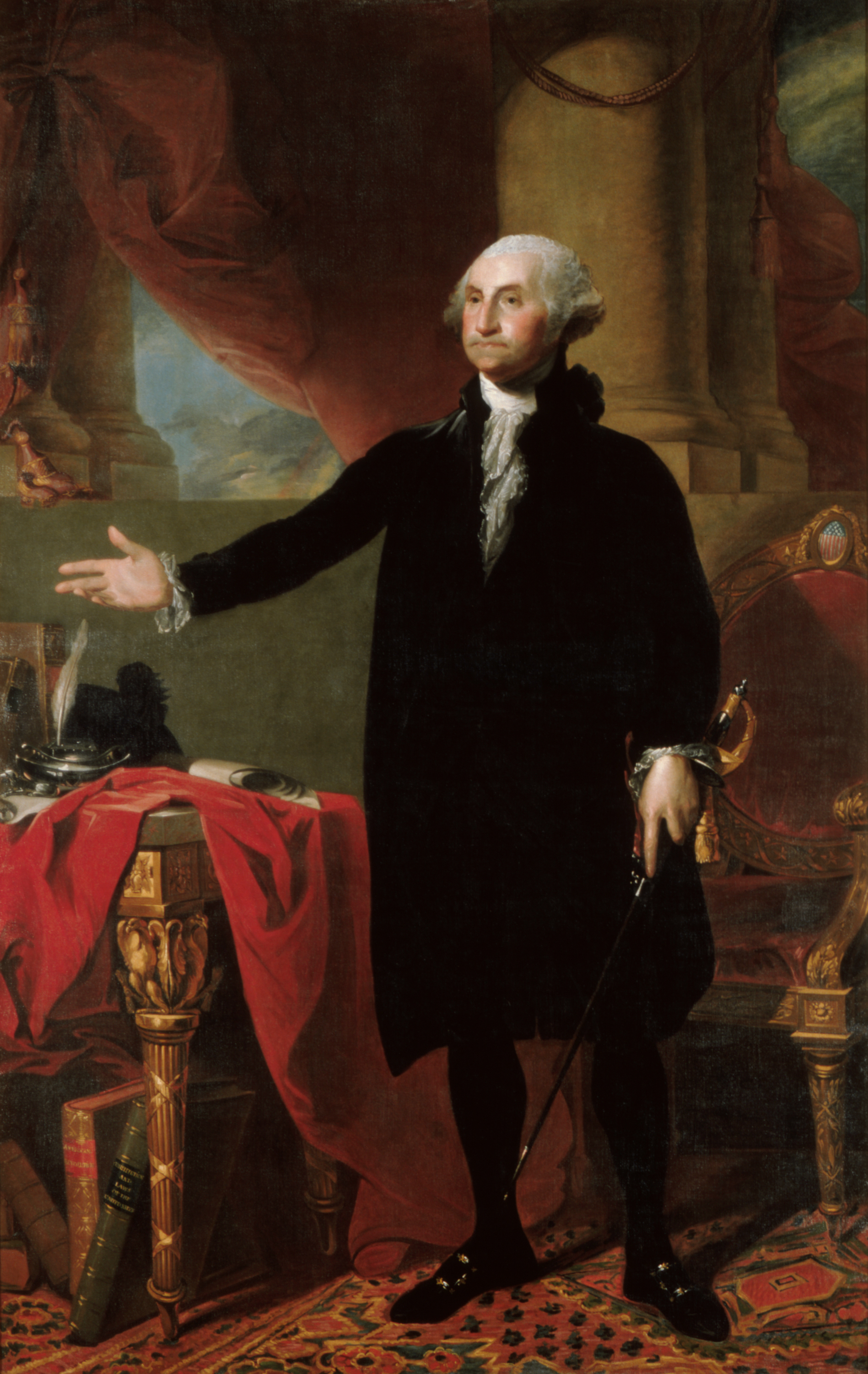 Official Presidential portrait of George Washington